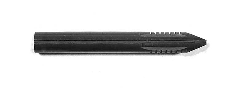 Indian fountain pen feed made of ebonite (hard rubber). Ebonite has good hydrophilic properties. This makes ink (and other watery substances) travel well through the ink channel in a fountain pen feed. The traditional 6.35 mm (¼ in) diameter feed is about 51 mm (2 in) long.